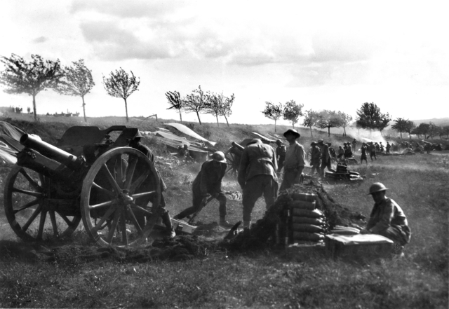 The 108th Howitzer Battery in action at Bray using 4.5 inch Mk I Howitzers. The troops of the 3rd Australian Division whom the Battery was supporting were then engaged beyond Suzanne (France, Somme). Identified, left to right 21492 Corporal J. F. Yates MM (partially obscured by the gun) 21437 Bombardier J. W. Larton (sic.. probably J T Wharton) (shovelling) 37417 Gunner (Gnr) H. Harnett (back to camera) 24557 Gnr C. F. H. Ipsen (looking up) 23094 Gnr F. (sic... John ?) Southwell (extreme right foreground) 32887 Gnr C. Dun (in the background between Harnett and Ipsen) 23073 Gnr A. McDonald (directly behind Ipsen) 32962 Gnr Stockley (behind McDonald) Location : Belgium: Wallonie, Bray. NOTE : This version of the photograph has brightness and contrast artificially increased to highlight details.